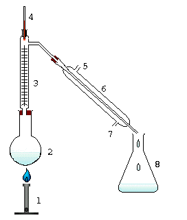 Gebaseerd op nl::en:Image:Fractional distillation lab apparatus.png, drawn by Theresa knott.